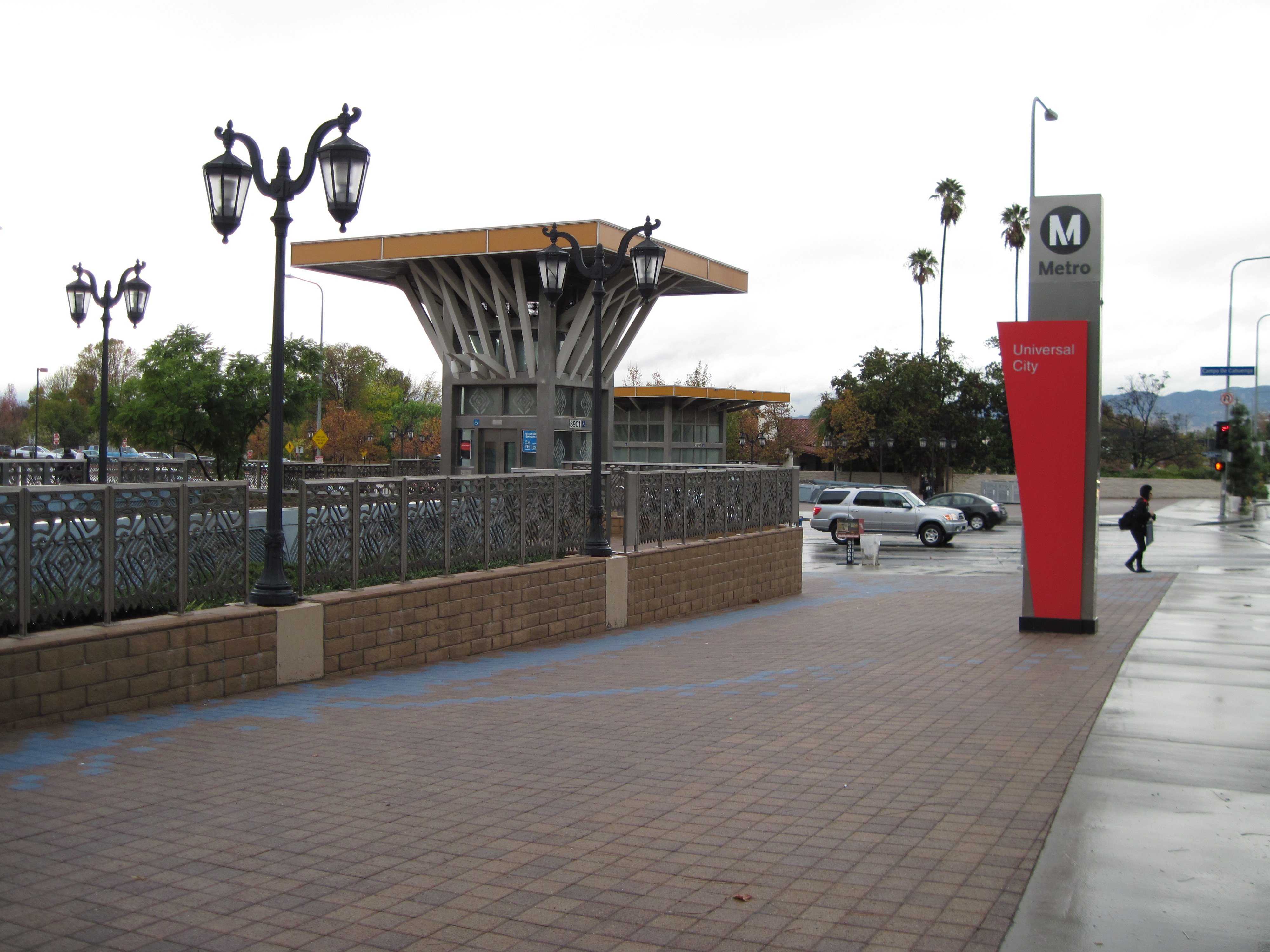 The Los Angeles County Metropolitan Transportation Authority's Universal City station, serving the Metro Red Line in North Hollywood, California, USA.